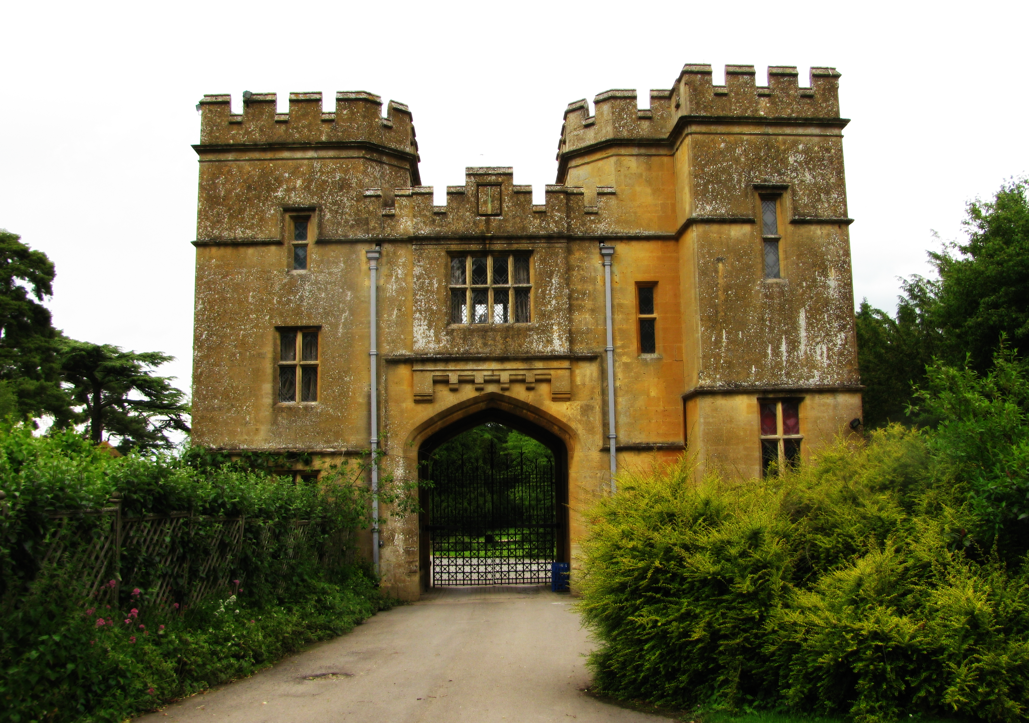 Sudeley Castle Gatehouse.